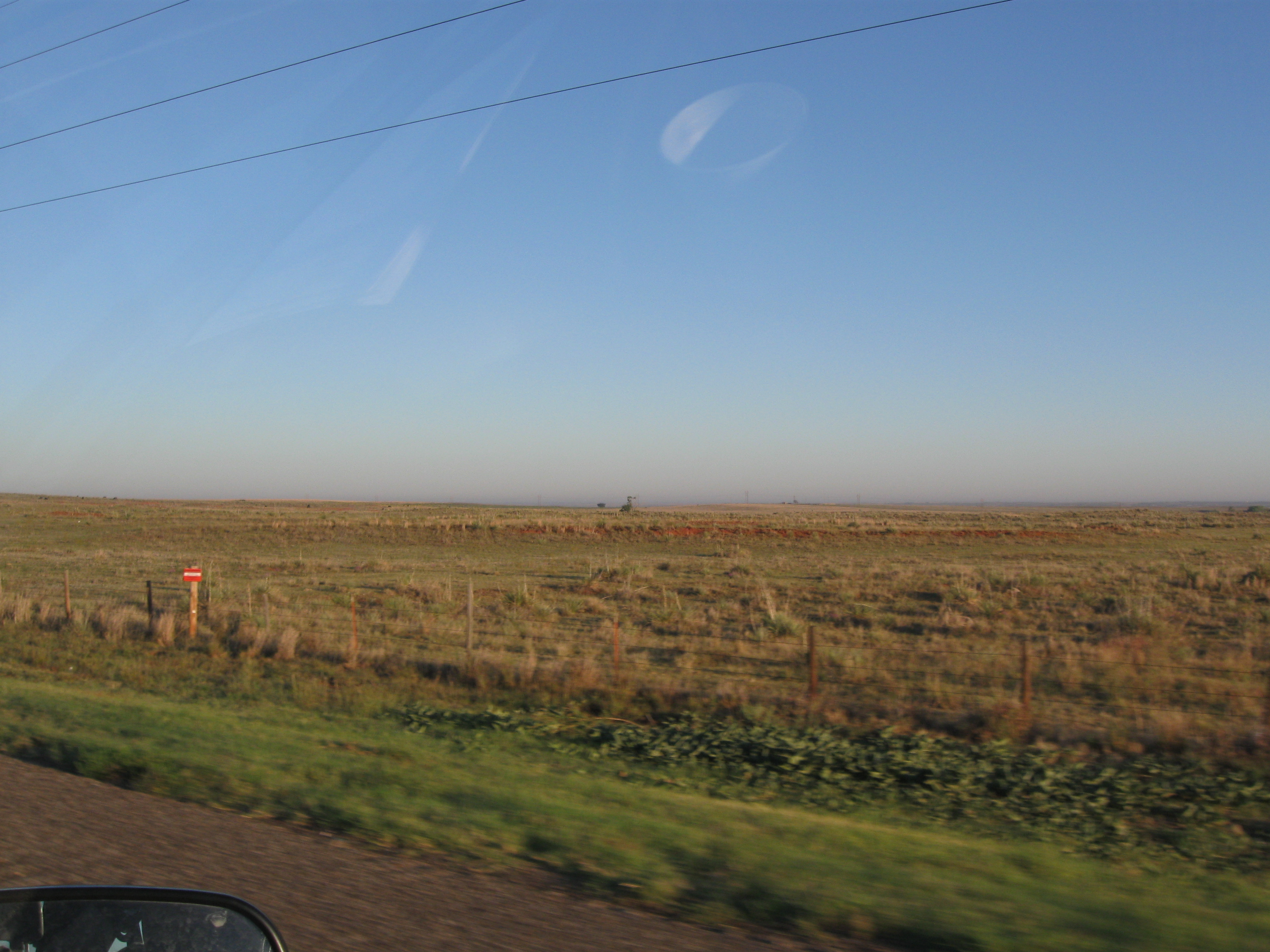 This is a rural section of Beaver County, Oklahoma. 23 September 2011